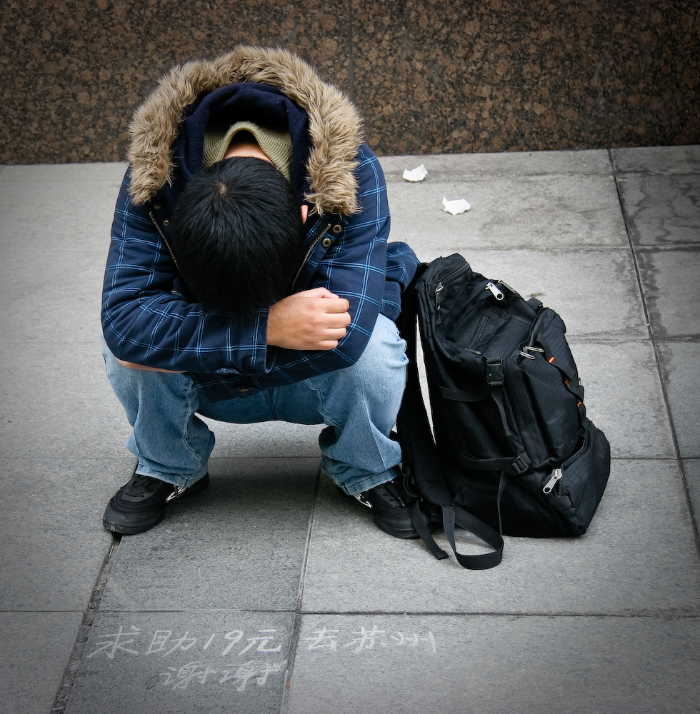 Young man on the streets of Shanghai writes on sidewalk, "Help! 19 Dollars to go to Sūzhōu [Town name] Thank you."